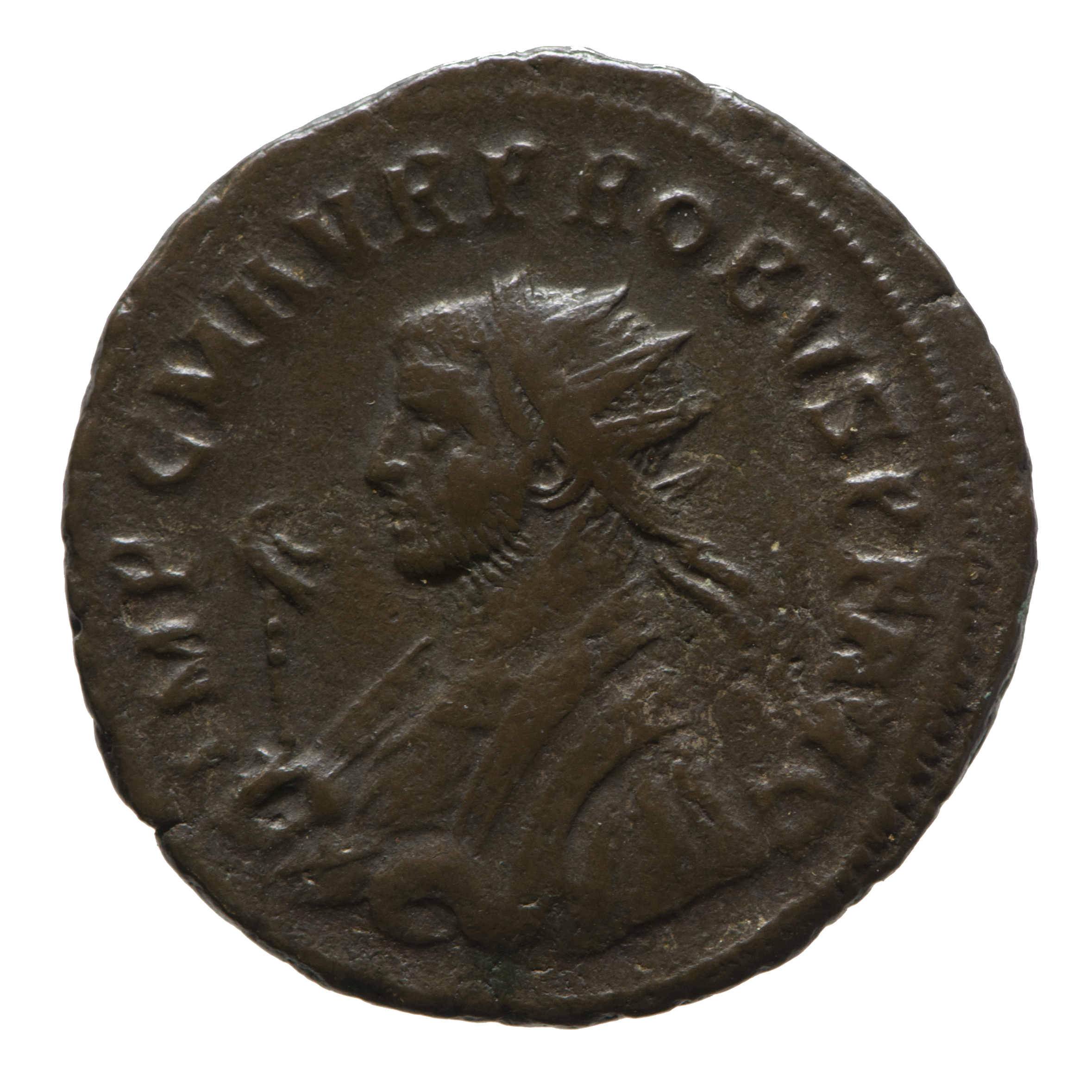 Obverse (front) of a radiate of Probus Head facing left radiate wearing imperial mantle and holding eagle tipped sceptre